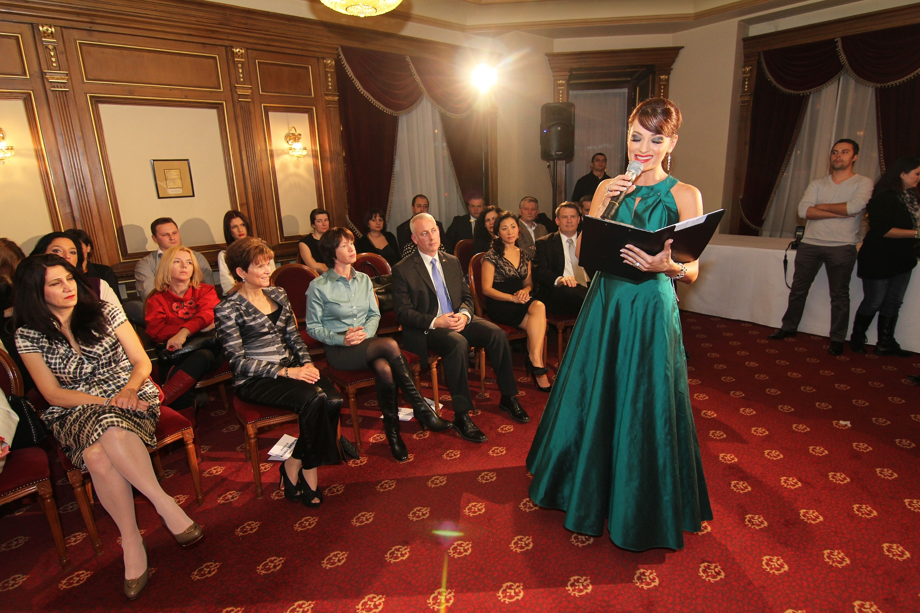 Anca Țurcașiu presenting a fashion show at Casa Capșa in BucharestRomână: Anca Țurcașiu gazduind o prezentare de modă la Casa Capșa din București